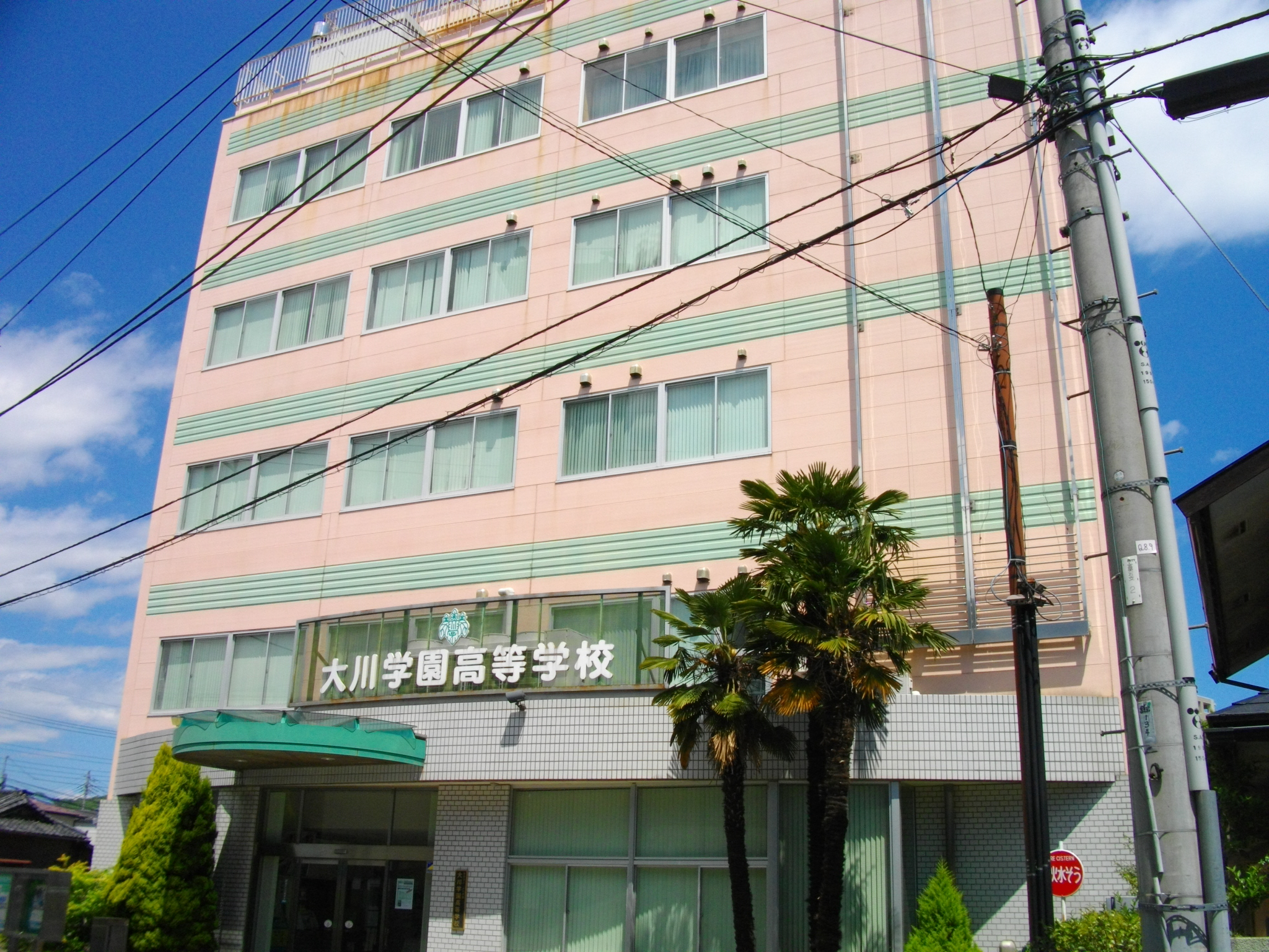 Ookawa Gakuen High School